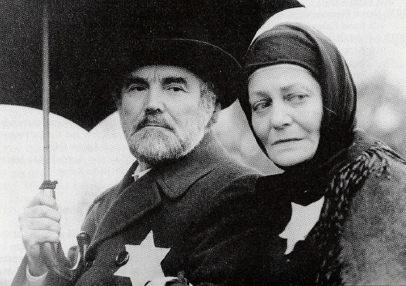 Ferenc Zenthe and Hédi Temessy in the movie Jób lázadása.